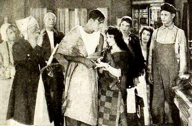 Still from the American film Too Many Millions (1918) with Wallace Reid and Ora Carew, on page 25 of the January 1919 Film Fun. The couple has lost their clothing in a fire and are getting married very informally.